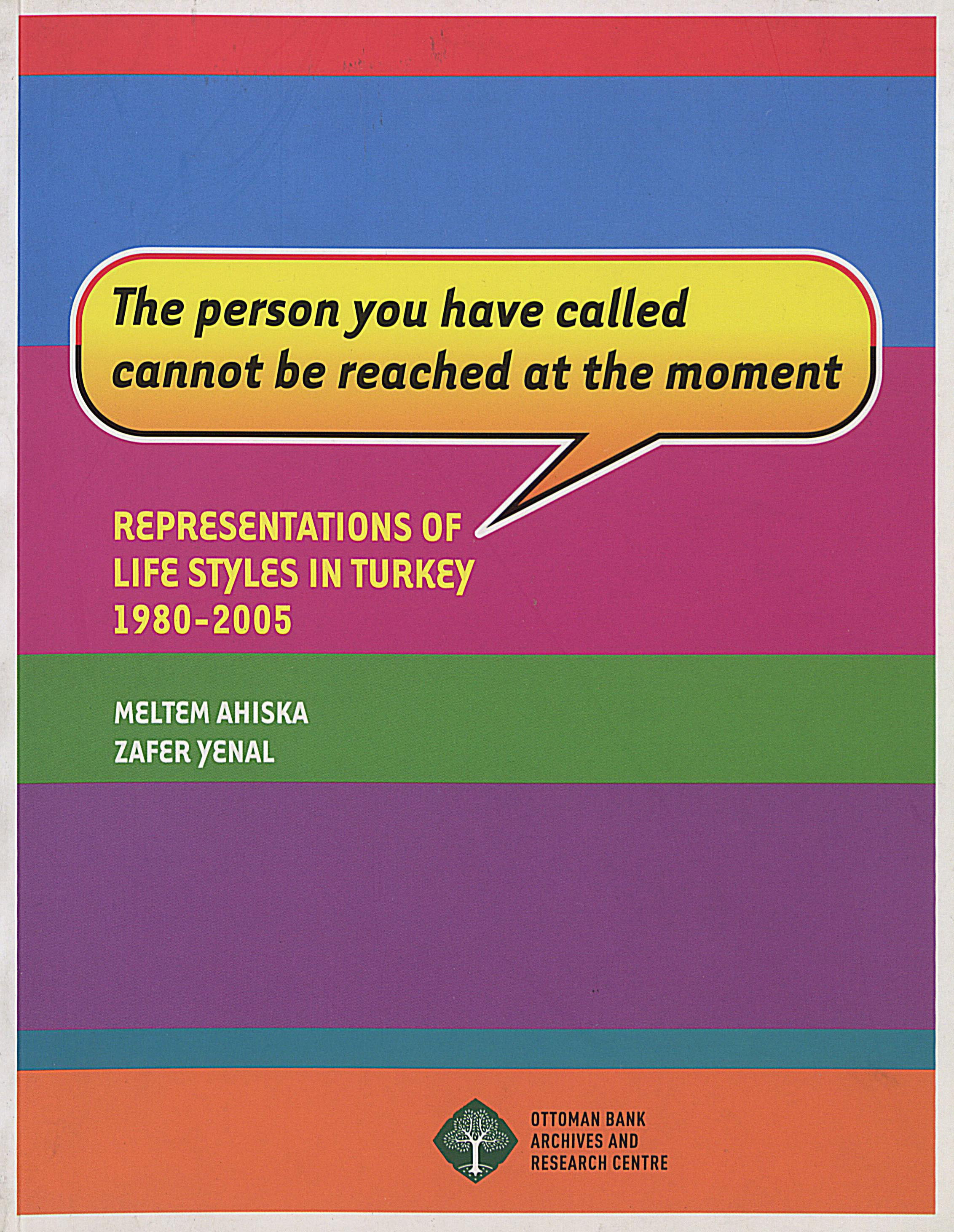 Ottoman Bank Archives and Research Centre exhibition publication for "Representations of Lifestyles in Turkey (1980-2005)"